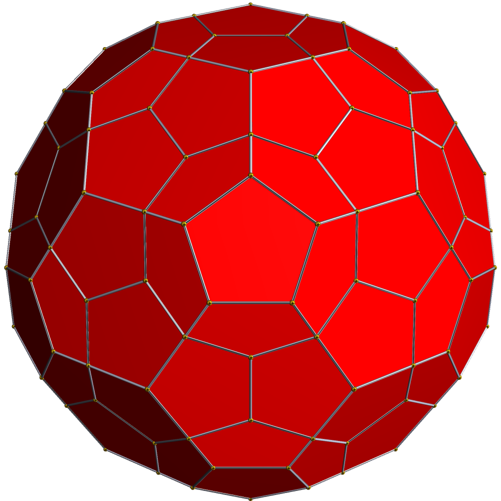 Convex regular polychoron: en:120-cell {5,3,3} - solid, orthogonal projection The copyright holder of this file, Robert Webb, allows anyone to use it for any purpose, provided that the copyright holder is properly attributed. Redistribution, derivative work, commercial use, and all other use is permitted. Attribution: Attribution must be given to Robert Webb's Stella software as the creator of this image along with a link to the website: A complimentary copy of any book or poster using images from the Software would also be appreciated where feasible. This work is free and may be used by anyone for any purpose. If you wish to use this content, you do not need to request permission as long as you follow any licensing requirements mentioned on this page.